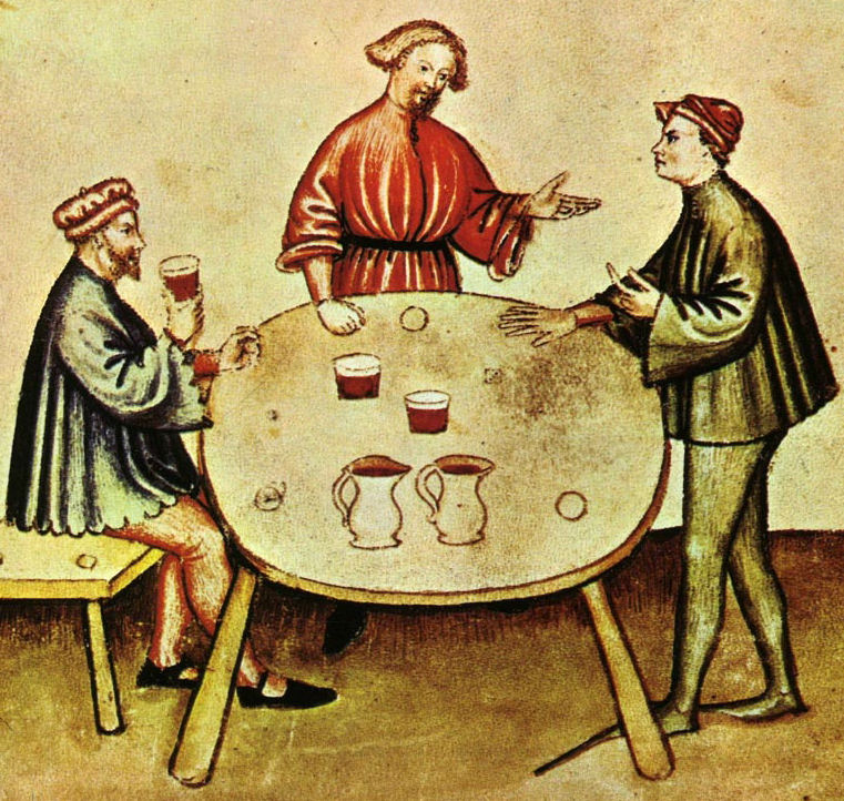 Aspects of daily life: Drinking